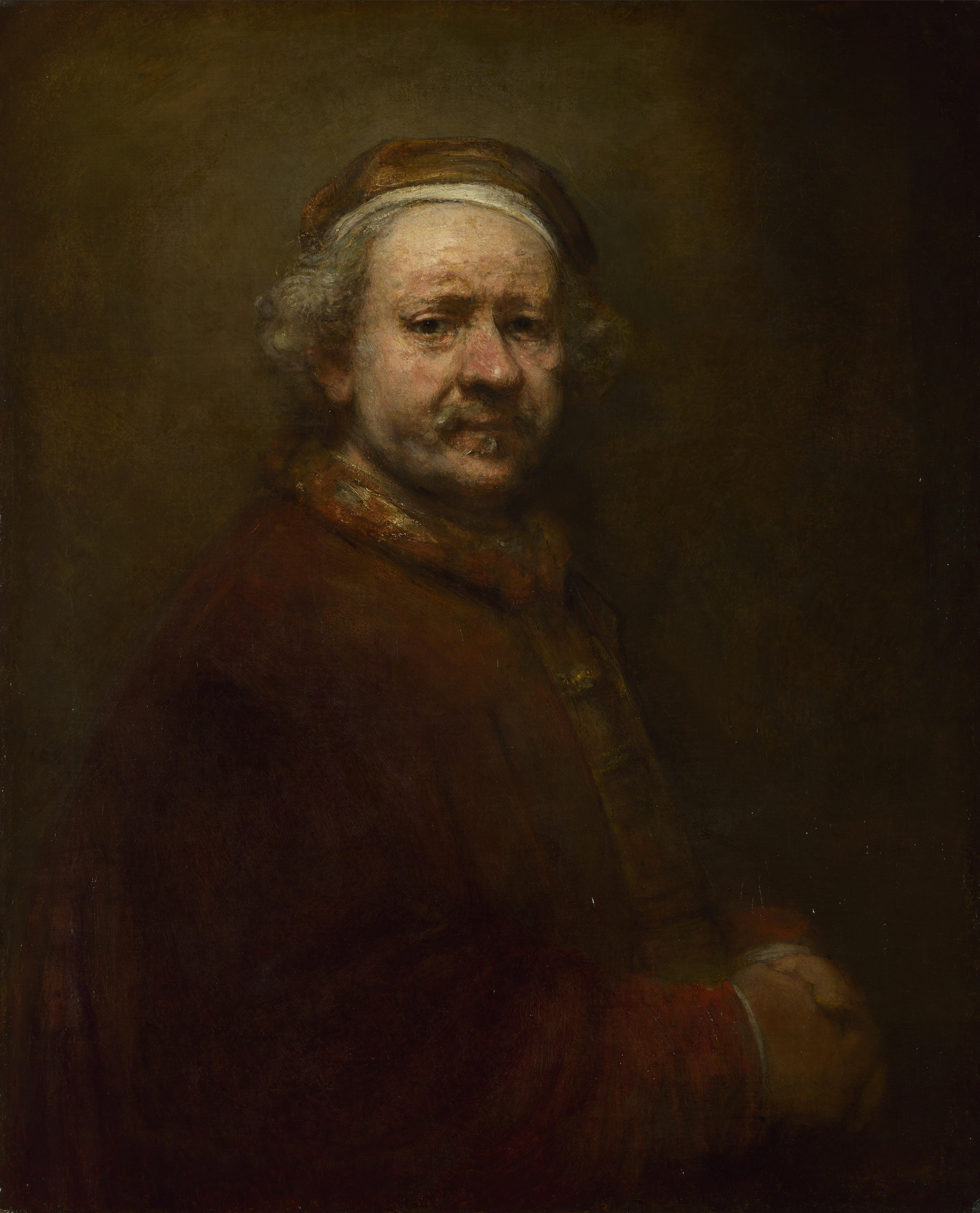 Rembrandt, Self Portrait at the Age of 63. National Gallery. Oil on canvas. 86 x 70.5 cm. NG221. Not on display